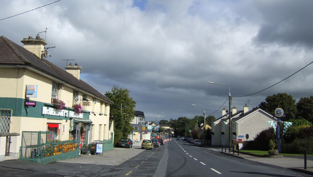 Western approach to Patrickswell, Limerick, Ireland